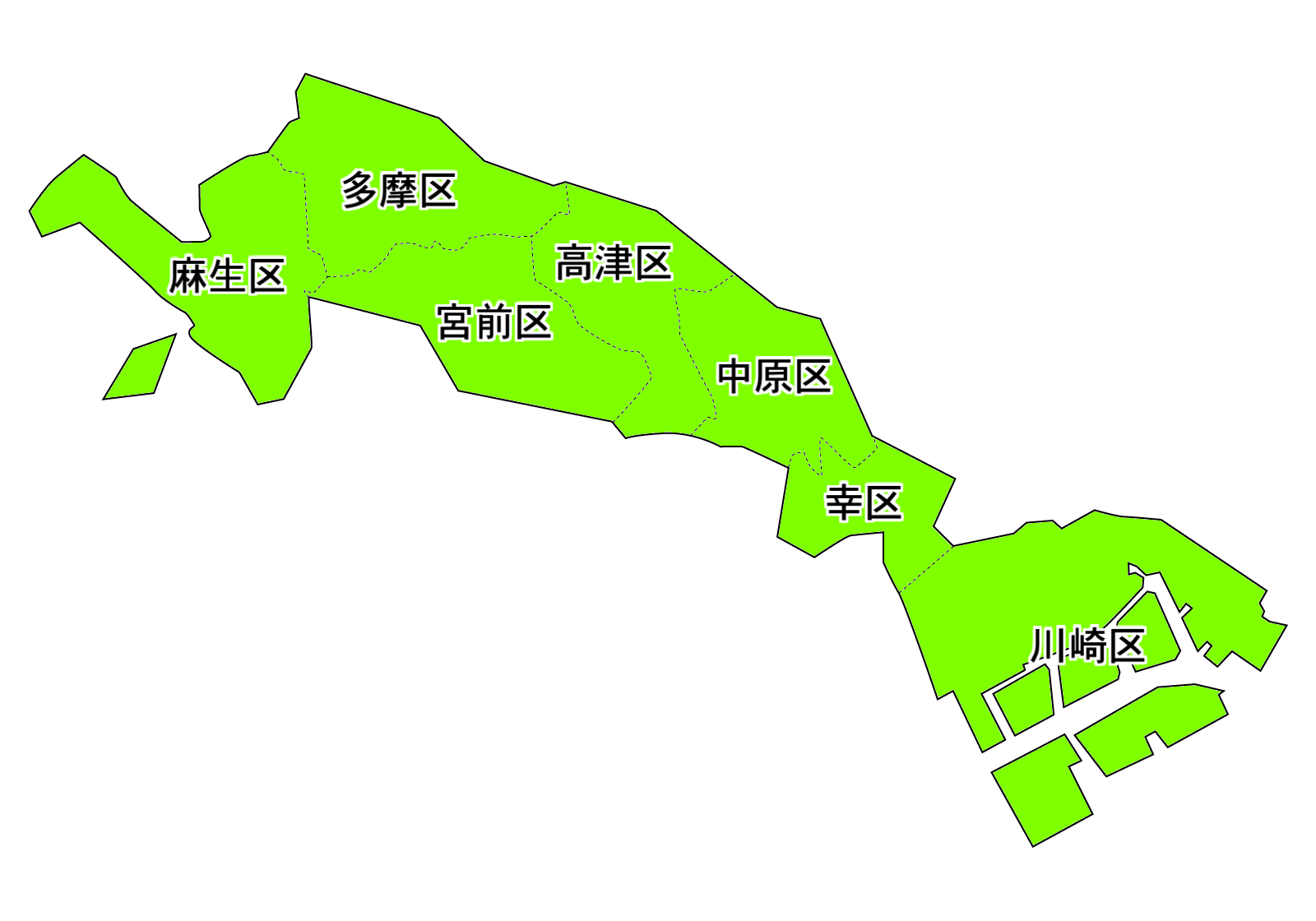 Map of wards of Kawasaki city